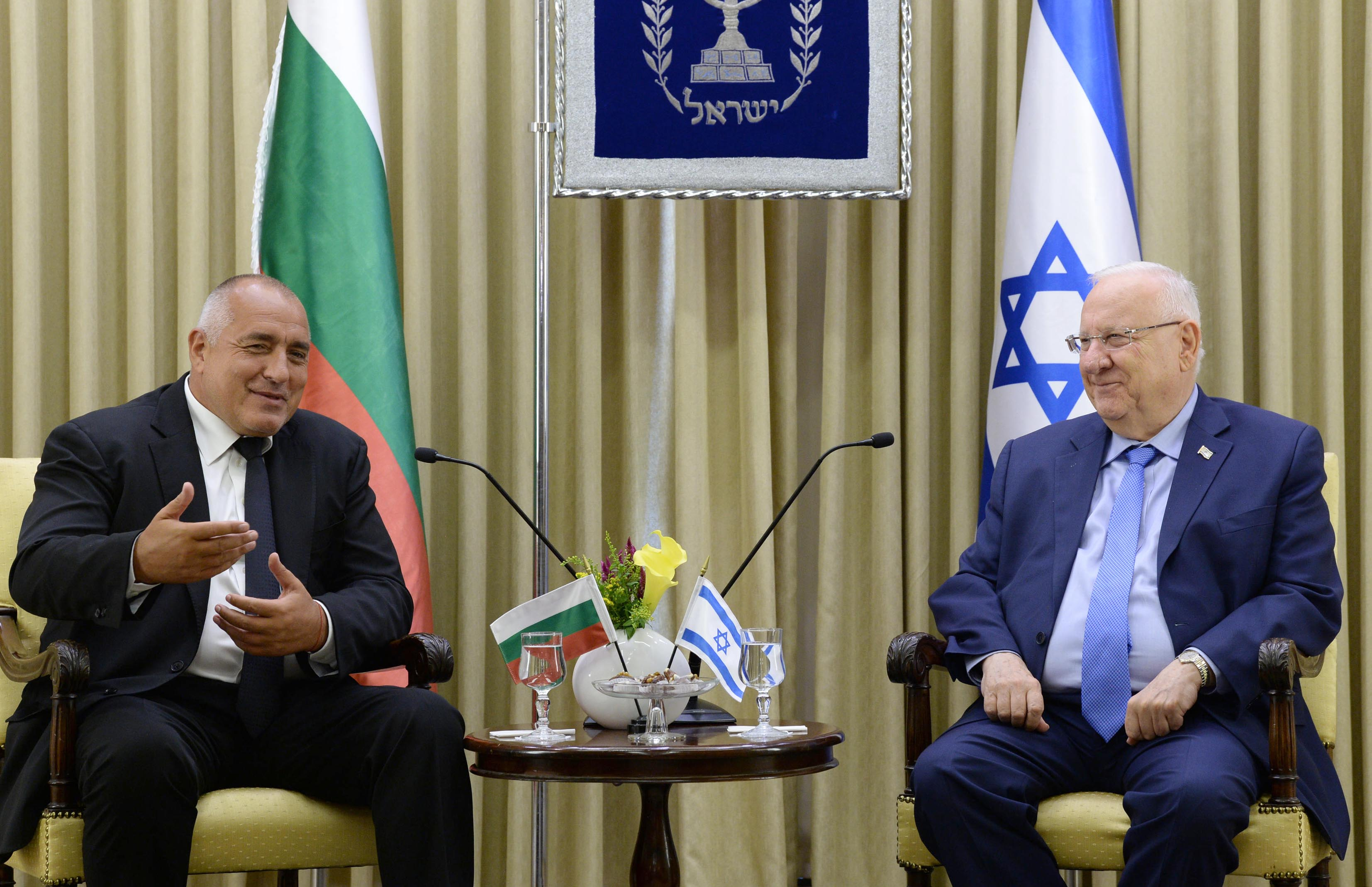 The President of Israel, Reuven Rivlin, met with the Prime Minister of Bulgaria, Boyko Borisov, in Jerusalem. Wednesday, June 13, 2018. Photo Credit: Mark Neyman / GPO.